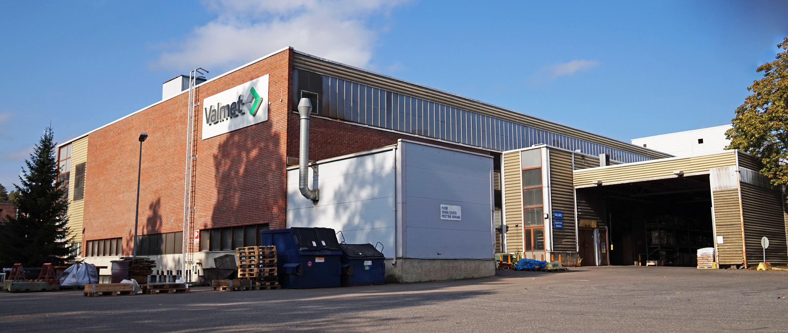 Valmet, Jyväskylä, Finland.